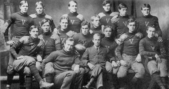 1904 Vanderbilt Commodores football team, the first one coached by Dan McGugin. Dan Blake is top row, second from left. Top Row: Hamilton, Blake, Sibley, Pritchard, Brown, Craig Middle Row: Stone, Brown, Patterson, Graham, captain Taylor, Haygood, Manier, Kyle Front Row: McGugin, coach, and Green, manager